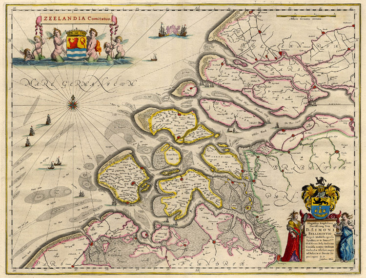 Map of the dutch province; title: Zeelandia Comitatus; size: 38 x 50 cm